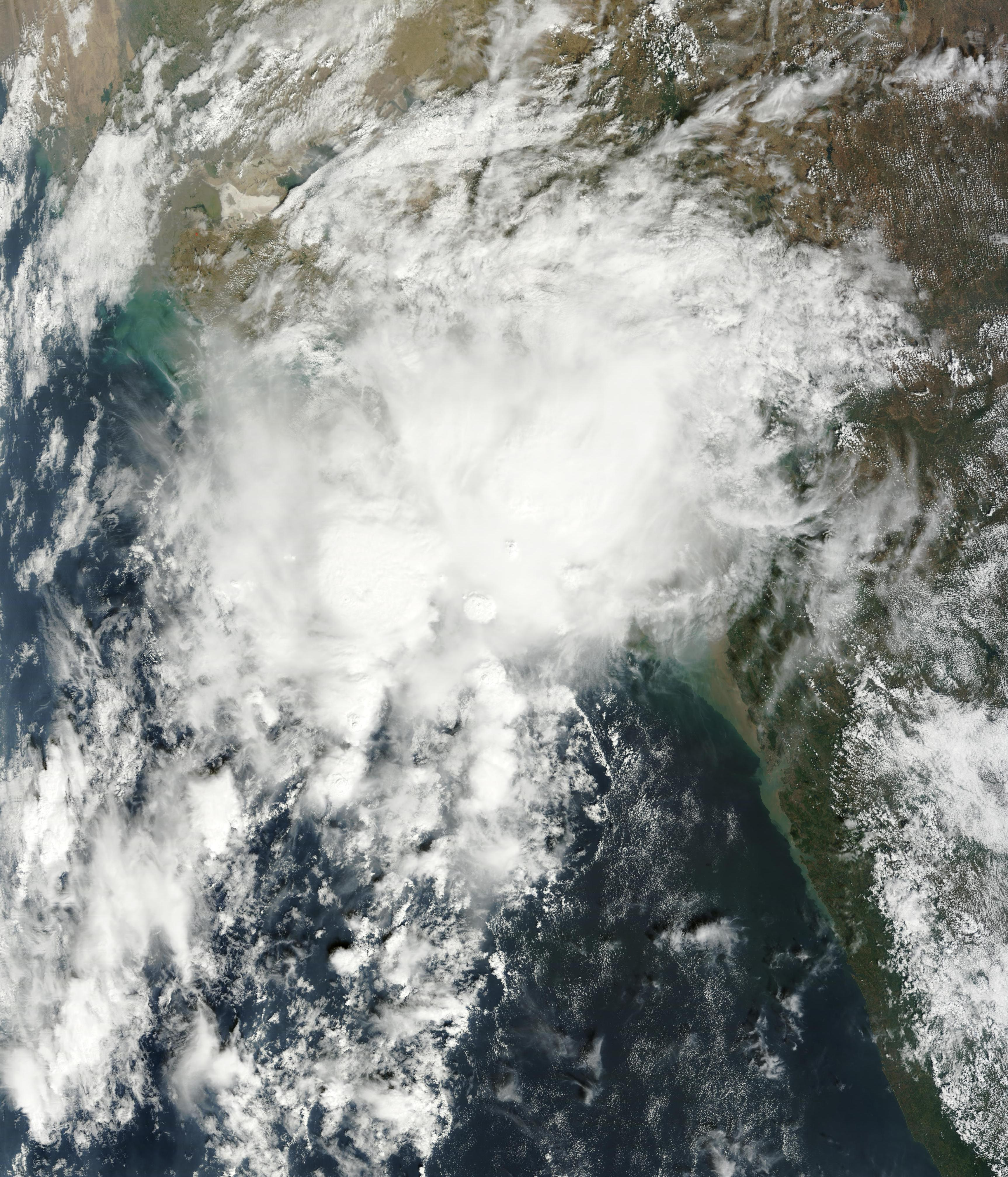 The remnants of former tropical cyclone Jal (05B) over Gujarat, India.